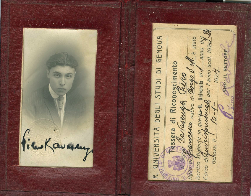 His image and University ID